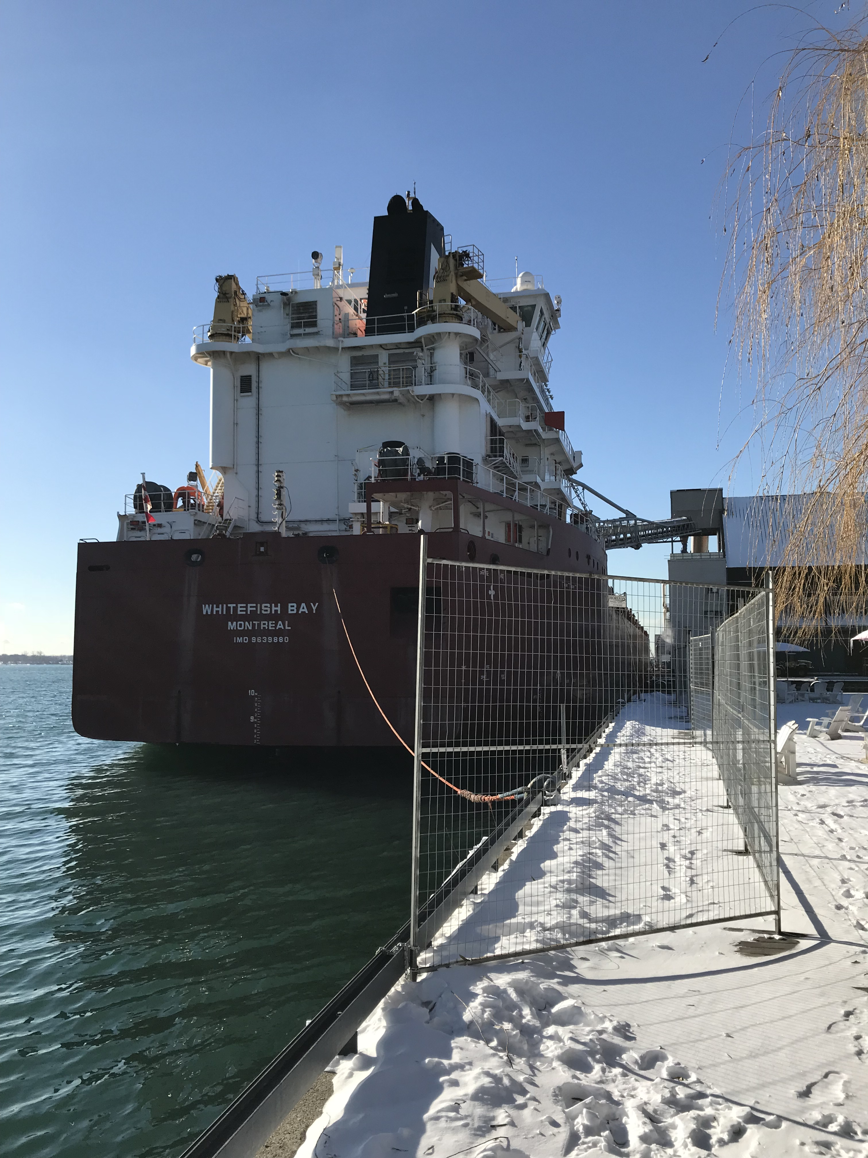 The CSL lake freighter Whitefish Bay moored outside the Redpath Sugar Facility at Queens Quay, Toronto, Ontario. IMO 9639880.